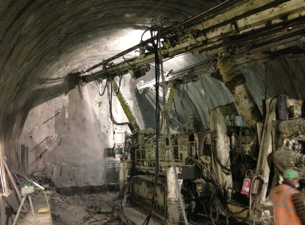 A method to reinforce the advance core